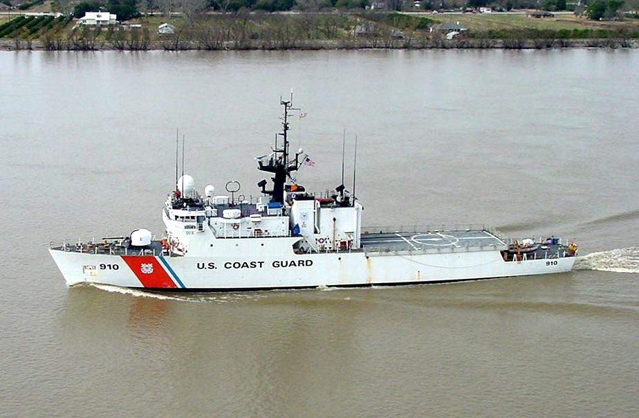 USCGC Thetis (WMEC-910) on the Mississippi River